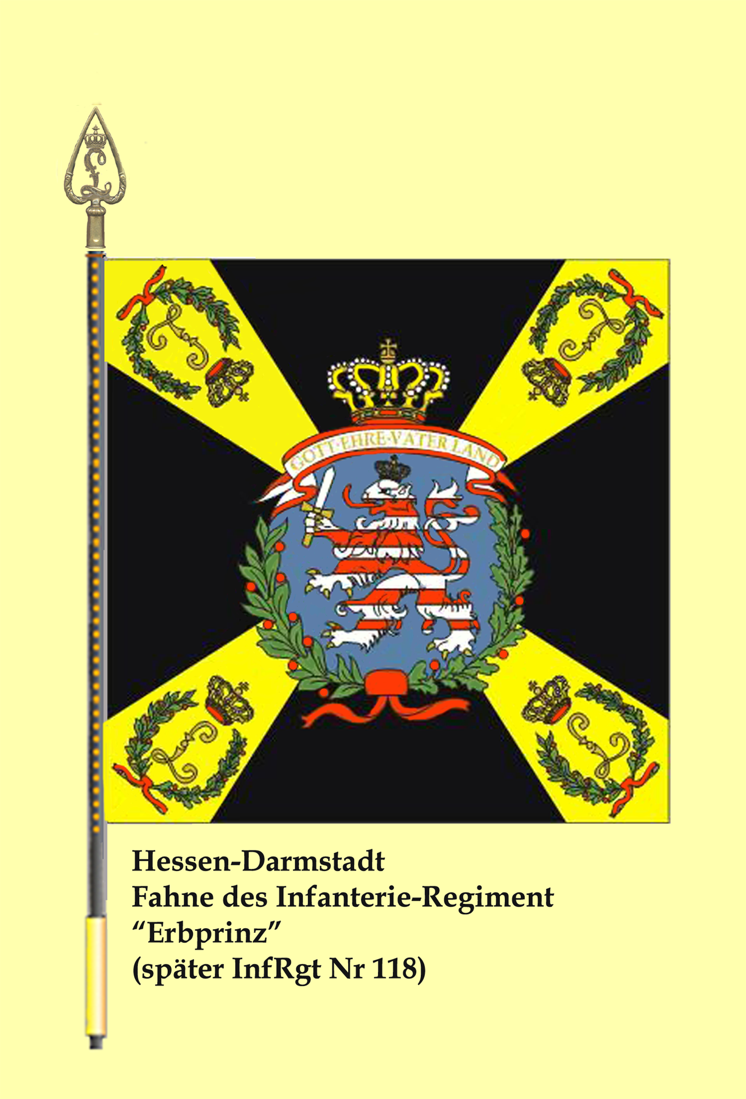 Colors of the Grand Duke of Hesse's 118th Regiment of Infantry in the prussian army